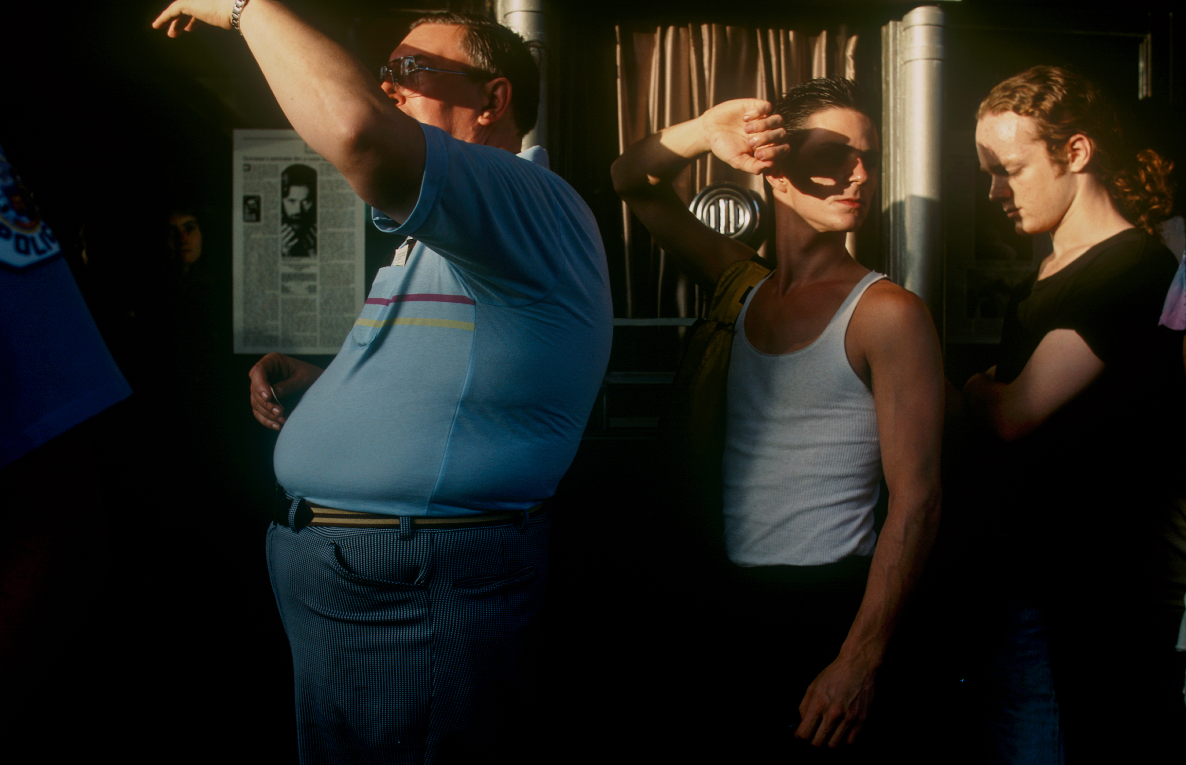 This photograph is part of the extended photographic essay "Chicago in the Reagan Era" by Jeff Wassmann.